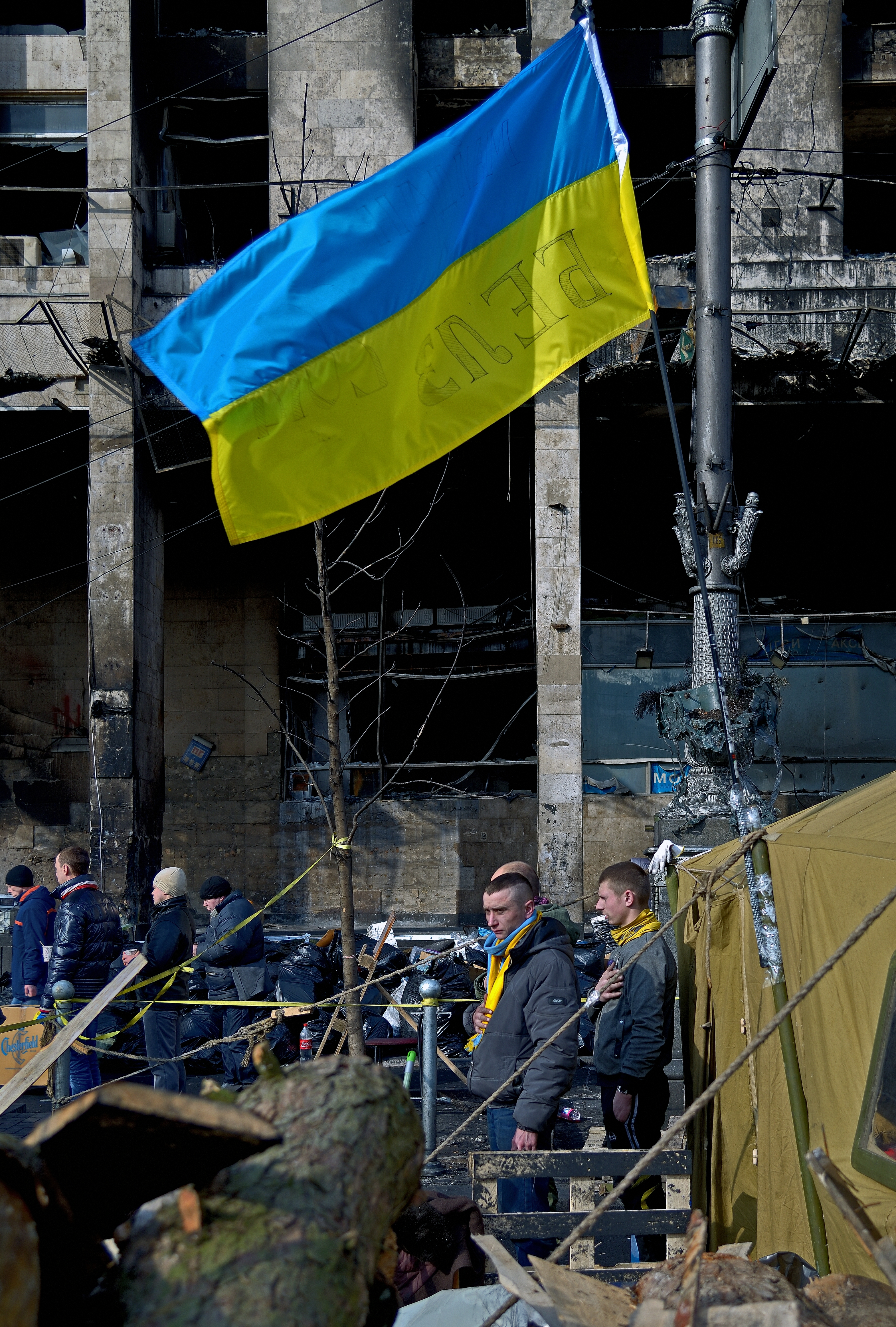 A moment of silence on Kiev Euromaidan in memory of "Heavenly Hundred" (people killed during Euromaidan). Khreshchatyk Street, in the background - burned down Trade Unions Building